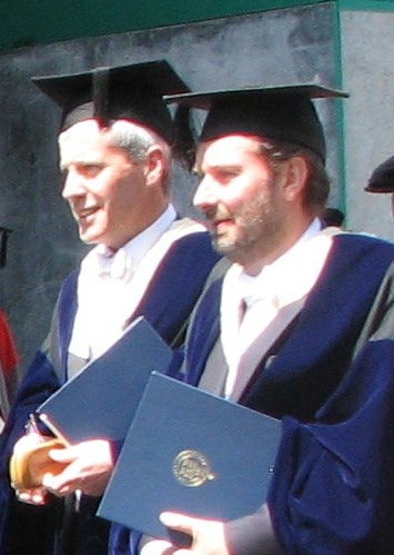 Prof. Martin Williams (left) and Dr Philip Robins (right), the Senior and Junior Proctors of the University of Oxford for the proctorial year 2009-2010, passing in front of Hertford College after Encaenia 2009.